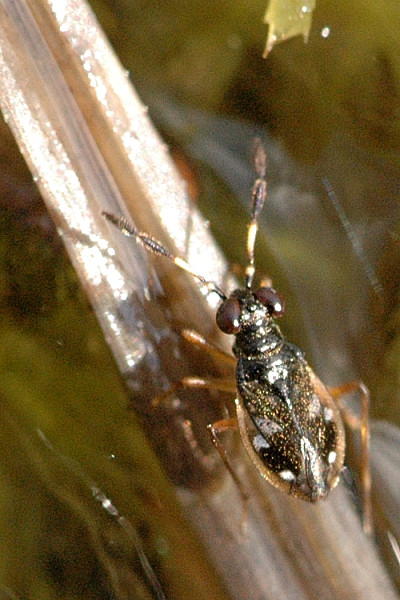 Picture taken in Commanster, Belgian High Ardennes . Species: Chartoscirta cocksii